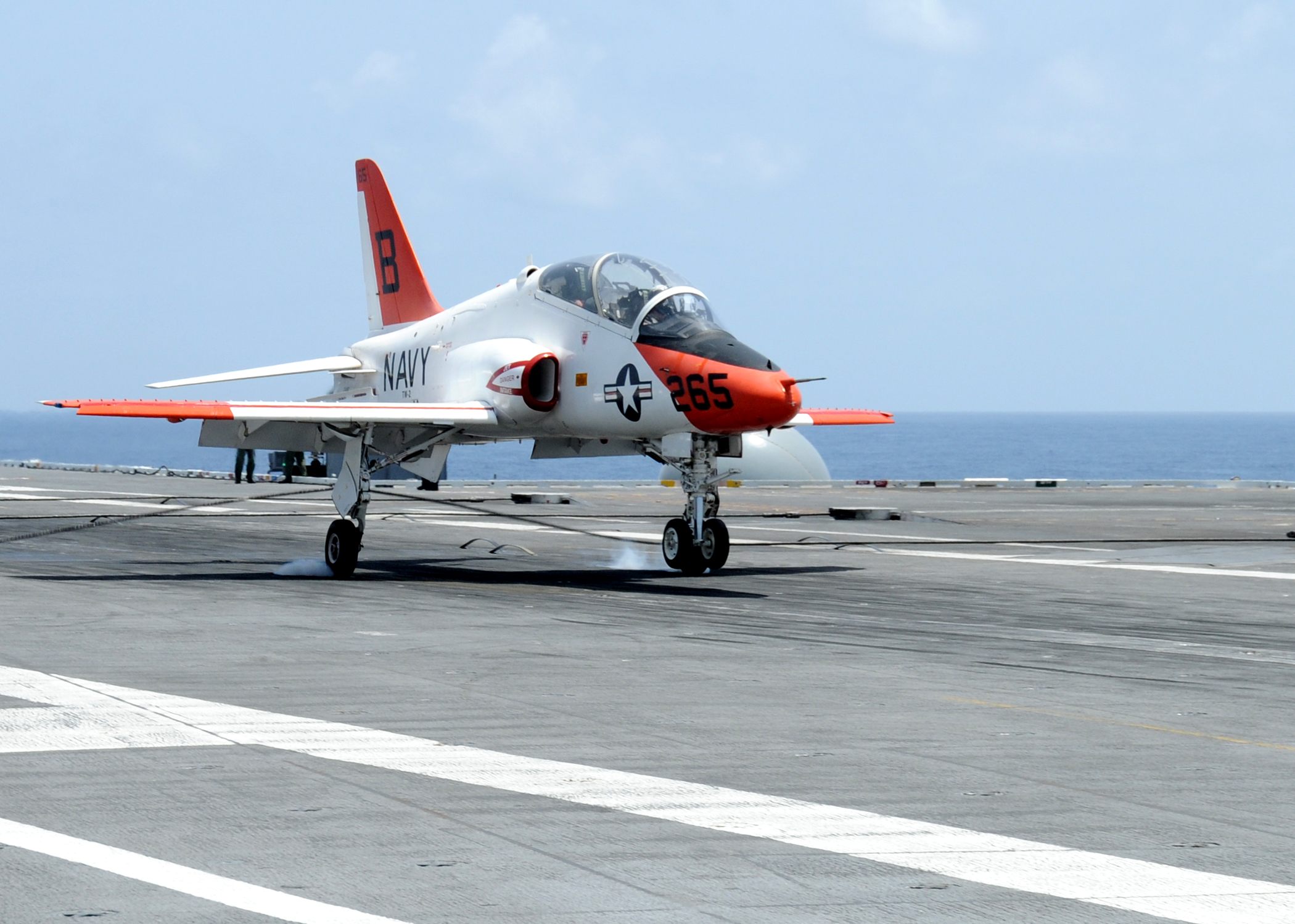 ATLANTIC OCEAN (July 17, 2010) A T-45C Goshawk training aircraft assigned to Training Wing (TRAWING) 2 lands aboard the aircraft carrier USS George H.W. Bush (CVN 77). George H.W. Bush is conducting training operations in the Atlantic Ocean. (U.S. Navy photo by Mass Communication Specialist Seaman Kevin J. Steinberg/Released)